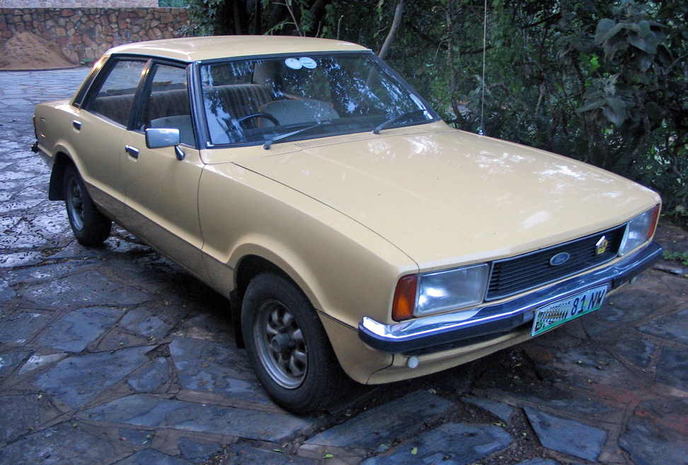 South African-built 1977 Ford Cortina Mk IV in Rustenburg, ZA.